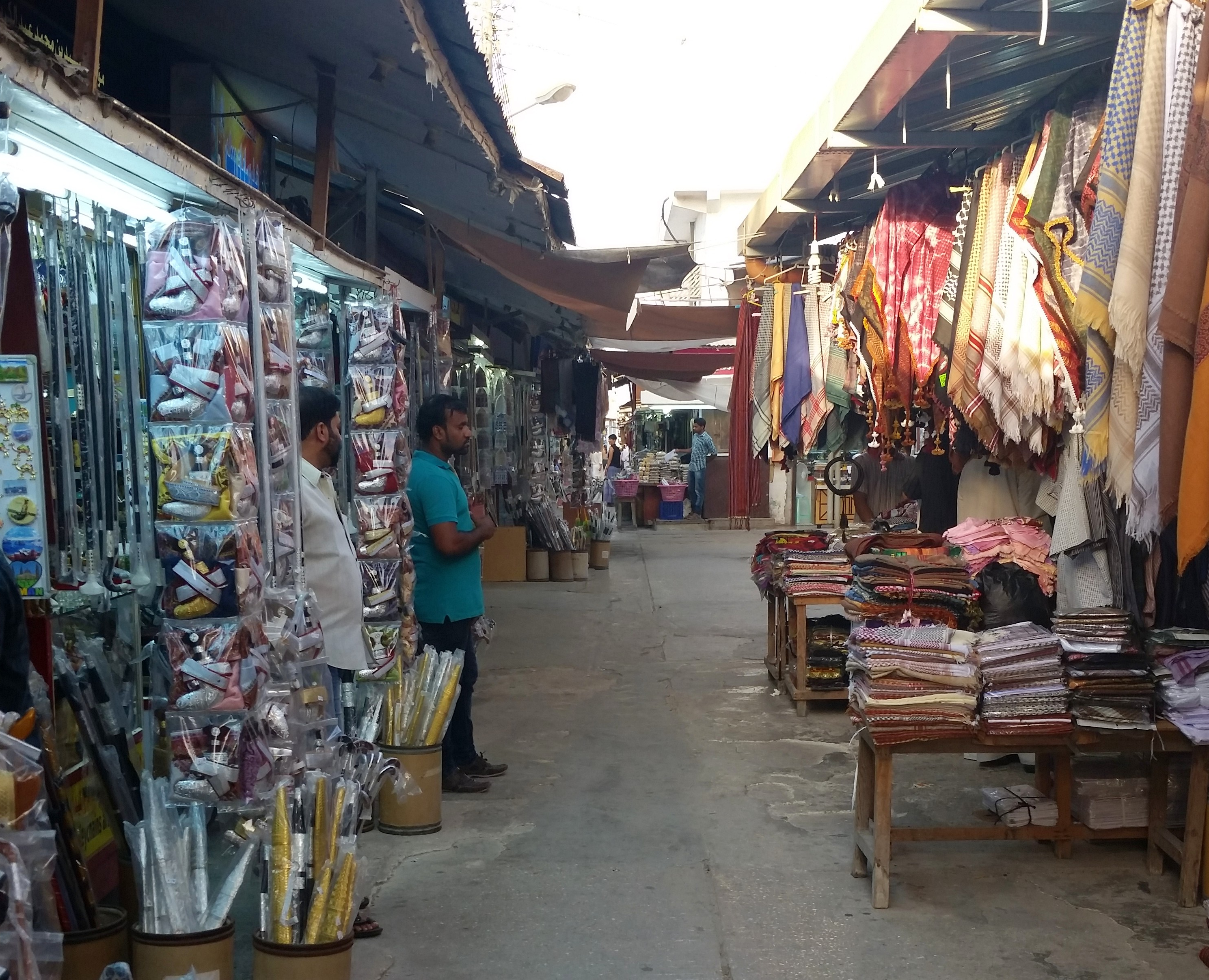 Alhusn-market-3